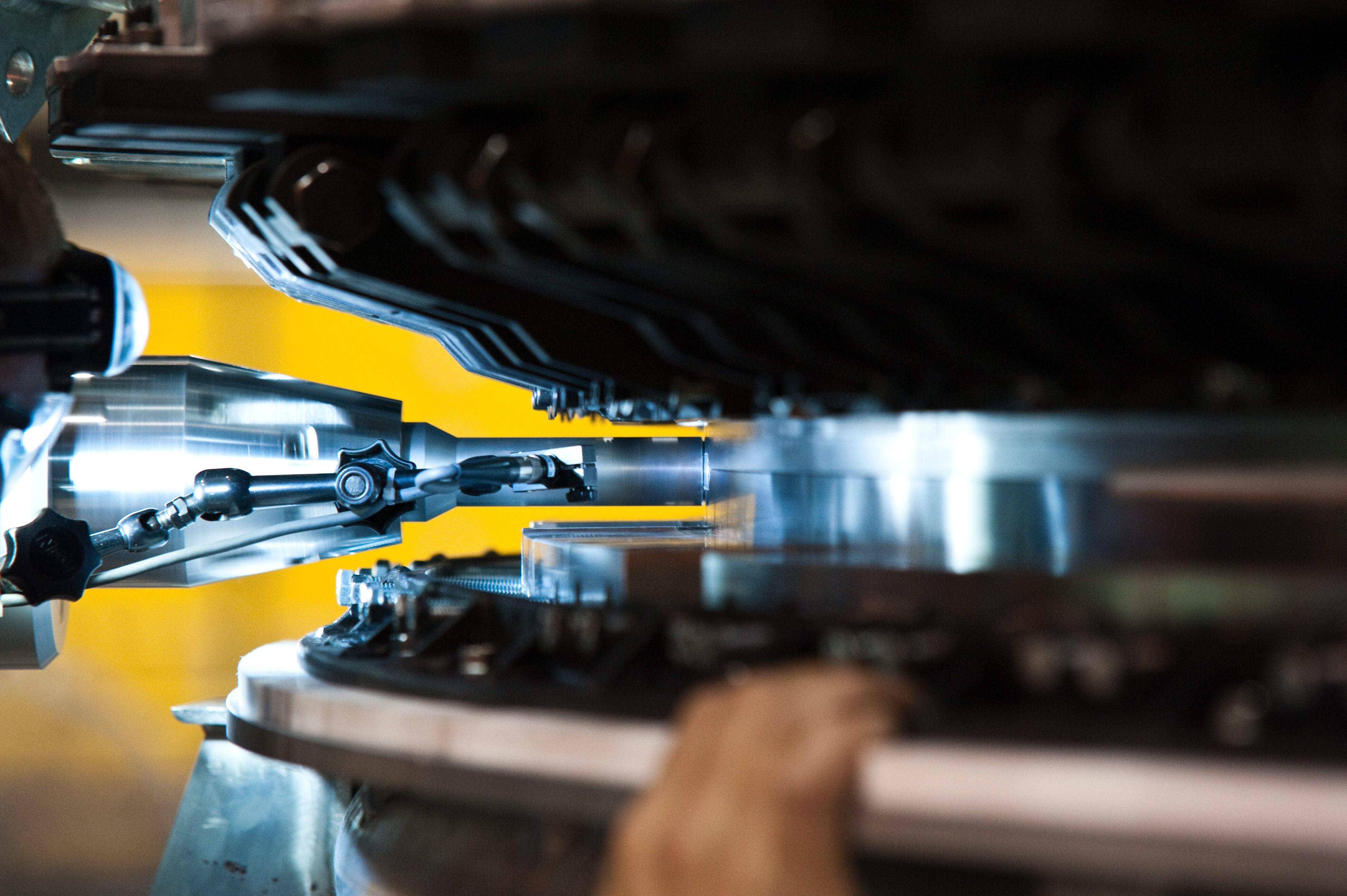 The bulkhead and nosecone of the Orion spacecraft are joined using friction stir welding at NASA's Michoud Assembly Facility.